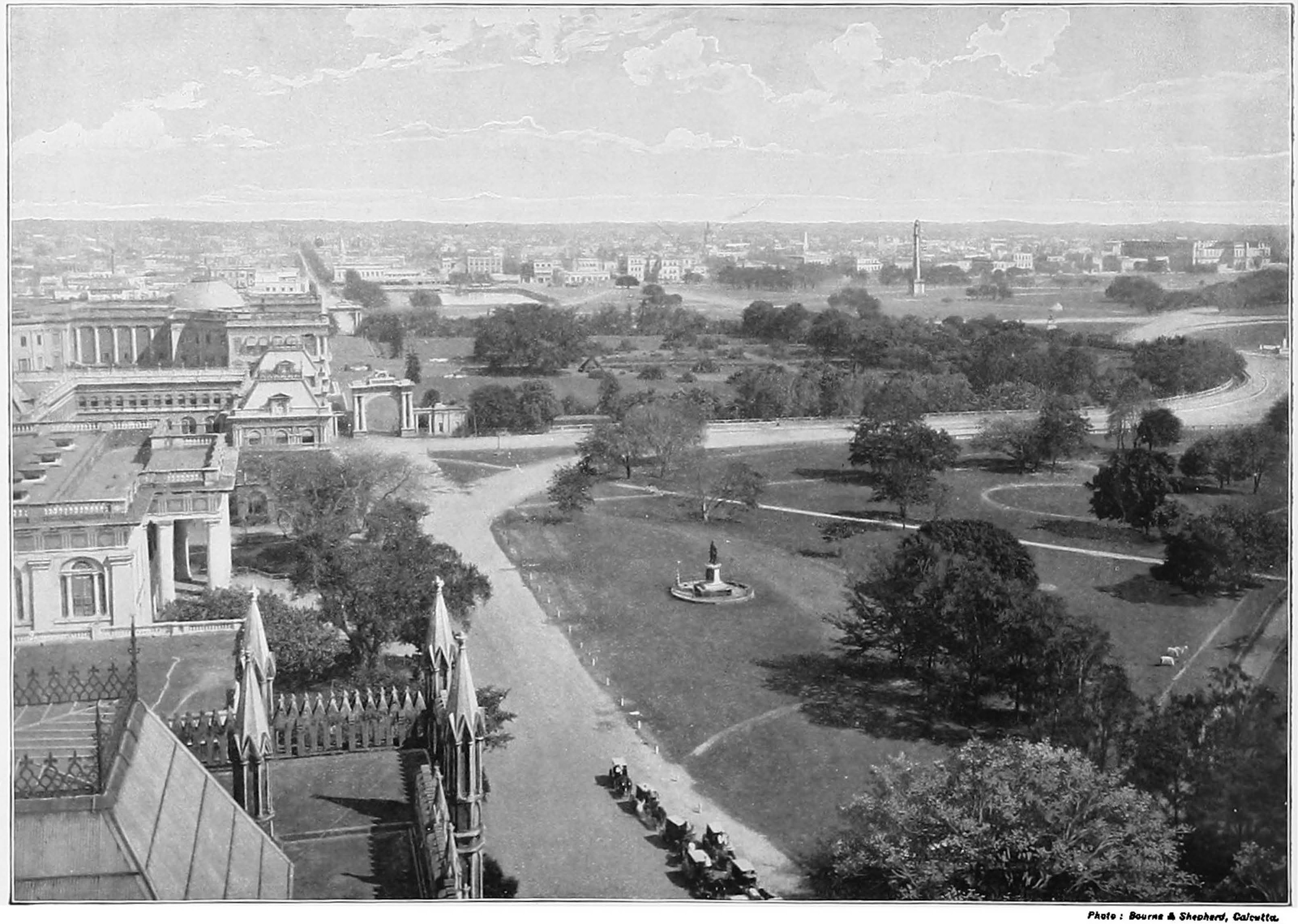 CALCUTTA. Our picture gives us some idea of the vast extent of the great official capital of British India. We are here looking down upon the top of the High Court, a handsome building, of which an illustration appears in another part of litis work. Calcutta has been sufficiently long in the possession of Europeans to have become exceedingly "Western " in its architecture, at least in those portions of the city in which Europeans principally reside. It does not take long, however, to pass into the native quarter in which the " East" with its manners, customs, and habits makes itself apparent to the traveller through every sense. During the hot season the Government of India leaves Calcutta and transacts its business in the higher and healthier climate of Simla.